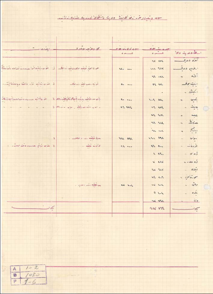 Summary ==The Distribution of the People who were to be Relocated and Distanced by the Tehcir law